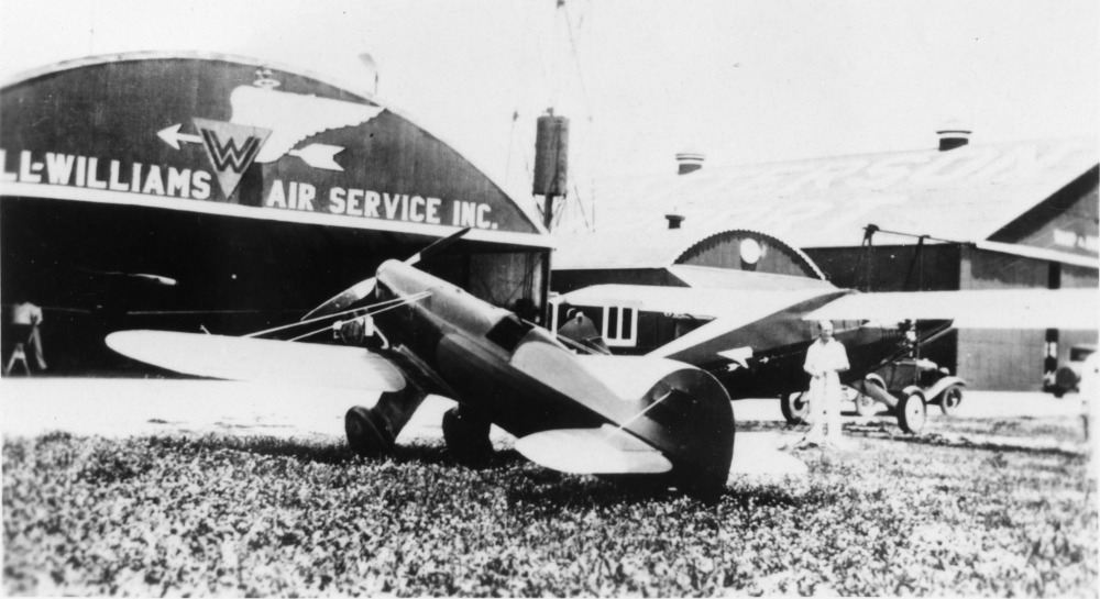 PictionID:42250114 - Title:Wedell Williams Model 22 This is either the NR-60Y or the NR-64Y in front of the Wedell-Williams hanger possibly in Patterson, Louisiana 1932,Location:Wedell-Williams Air Service Co, Patterson, LA - Catalog:15_003067 - Filename:15_003067.tif - ---- Image from the Charles Daniels Photo Collection album "Hawks/Haizlip" which details the exploits of aviators Frank Hawks (who made many record breaking flights) and famous pilots Jim and Mary Haizlip.----PLEASE TAG this image with any information you know about it, so that we can permanently store this data with the original image file in our Digital Asset Management System.----SOURCE INSTITUTION: San Diego Air and Space Museum Archive